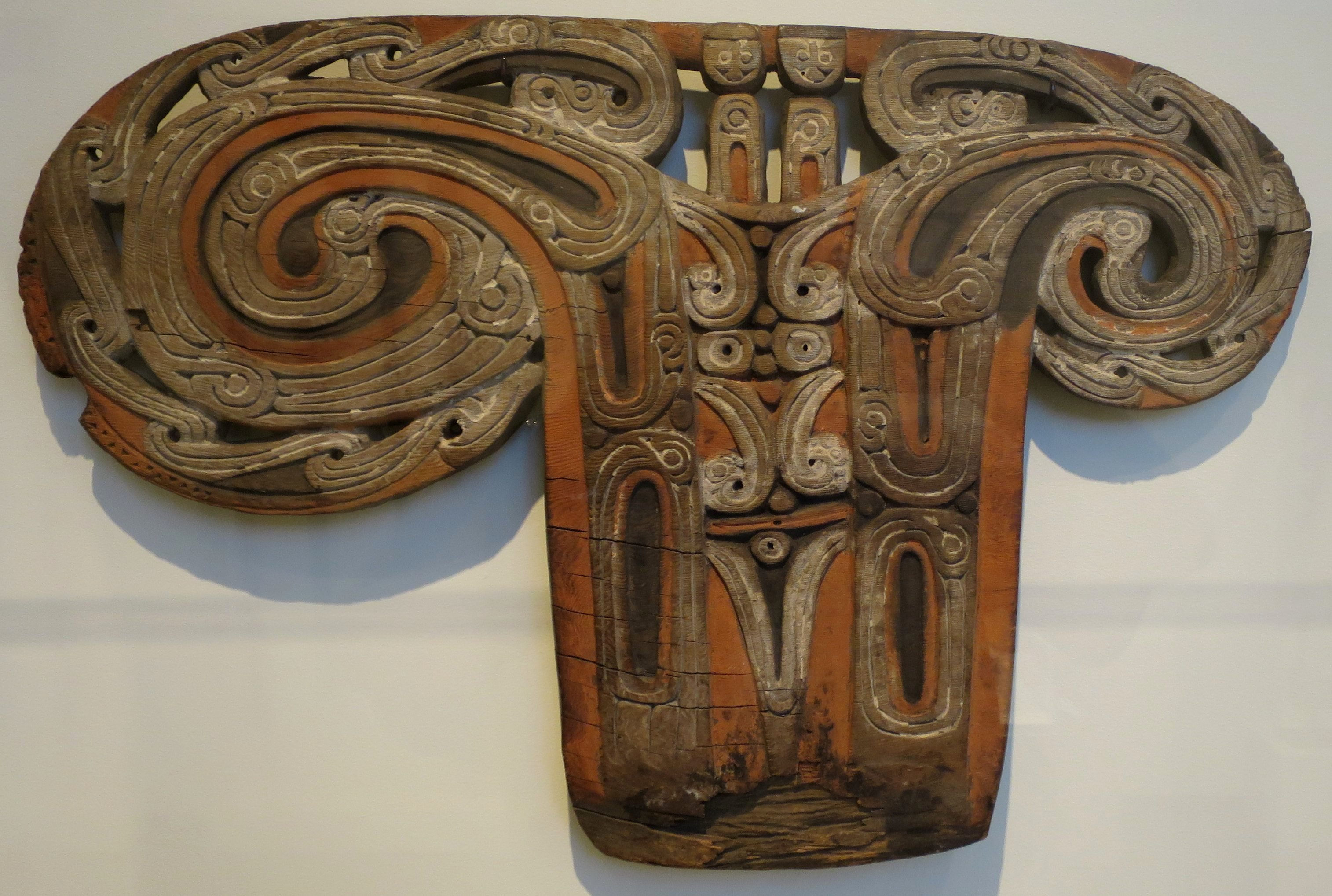 Canoe splashboard, Trobriand Islands, Milne Bay Province, Massim region, Papua New Guinea, early 20th century, carved wood and pigments, Honolulu Museum of Art, accession 4193